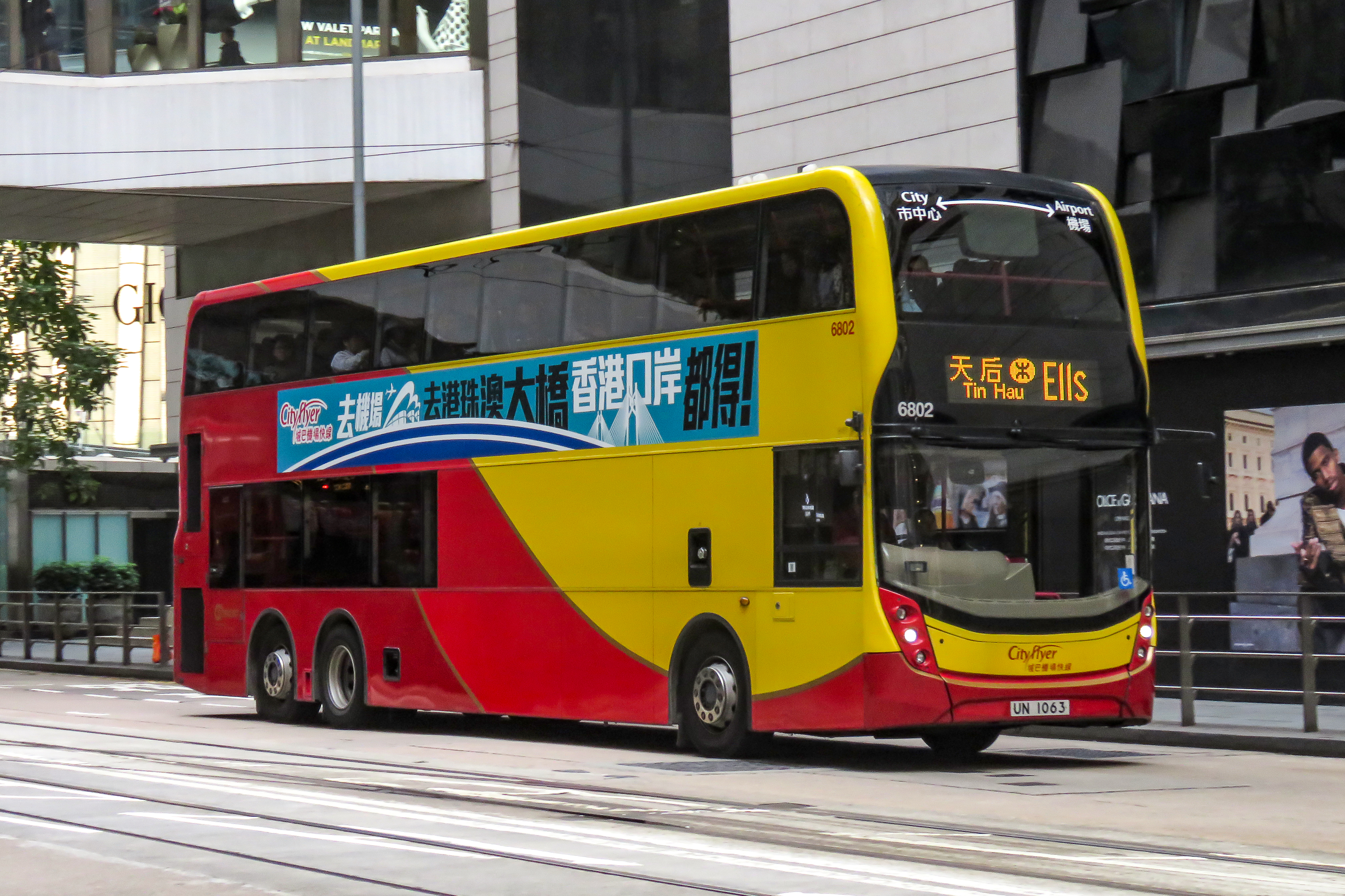 It's time to renew your advertisement, Cityflyers!